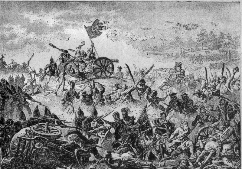 Battle of Raclawice, a painting by Michał Stachowicz